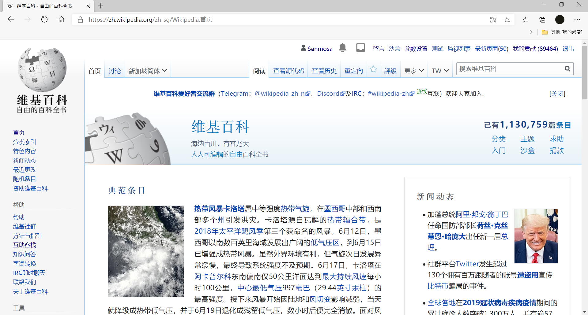 Using Microsoft Edge based on Chromium source code to browse Chinese Wikipedia Main page (zh-hans).